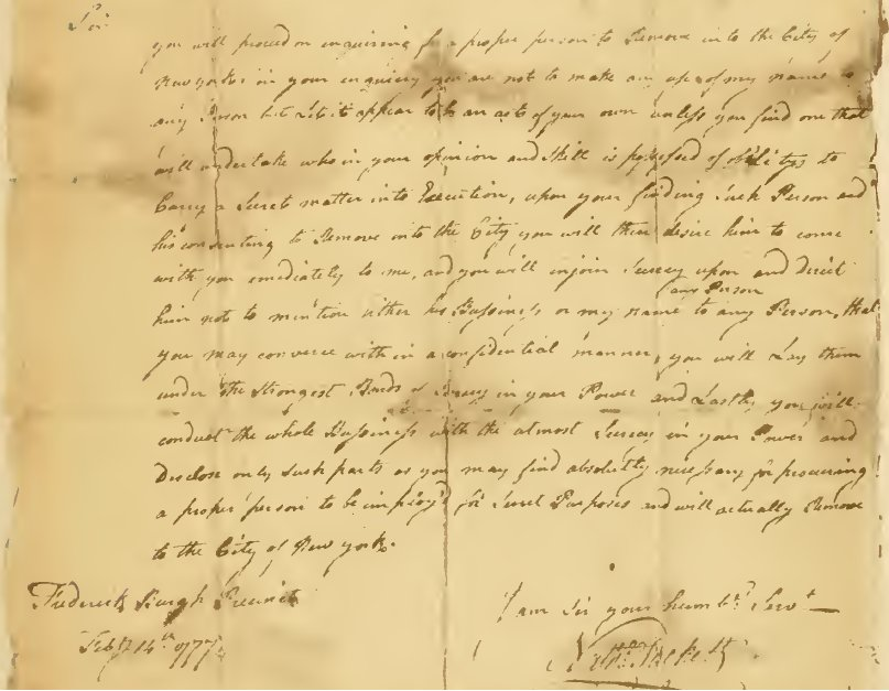 Letter from Nathanael Sackett to Henry Ludington 1777 reads To Colonel Henry Ludington Esqr. Sir, You will proceed on inquiring for a proper person to Remove into the City of New York, in your enquiry you are not to make any use of my name to any Person, but let it appear to be an actnof your own unless you find one that in your opinion and skill is possessed of abilitys to carry a secret matter into Execution, upon your finding such a Person and his consenting to Remove into the city you will then desire him to come with you immediately to me, and you will enjoin secrecy upon and direct him not to mention either his business or my name to any Person, any Person that you may converse with in a confidential manner, you will Lay them under the strongest Bonds of secrecy in your Power, and lastly you will conduct the whole Business with the utmost secrecy in your Power and disclose only such parts as you may find absolutely necessary for procuring a proper Person to be imployedbfor Secret Purposes and will actually Remove to the City of New York. I am Sir your humble Servt. Nathl. Sackett. Frederick Burgh Precinct, Feby. 14th, 1777.